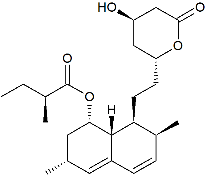 Lovastatin, a statin drug drawn in bkchem and GIMP by Mykhal.